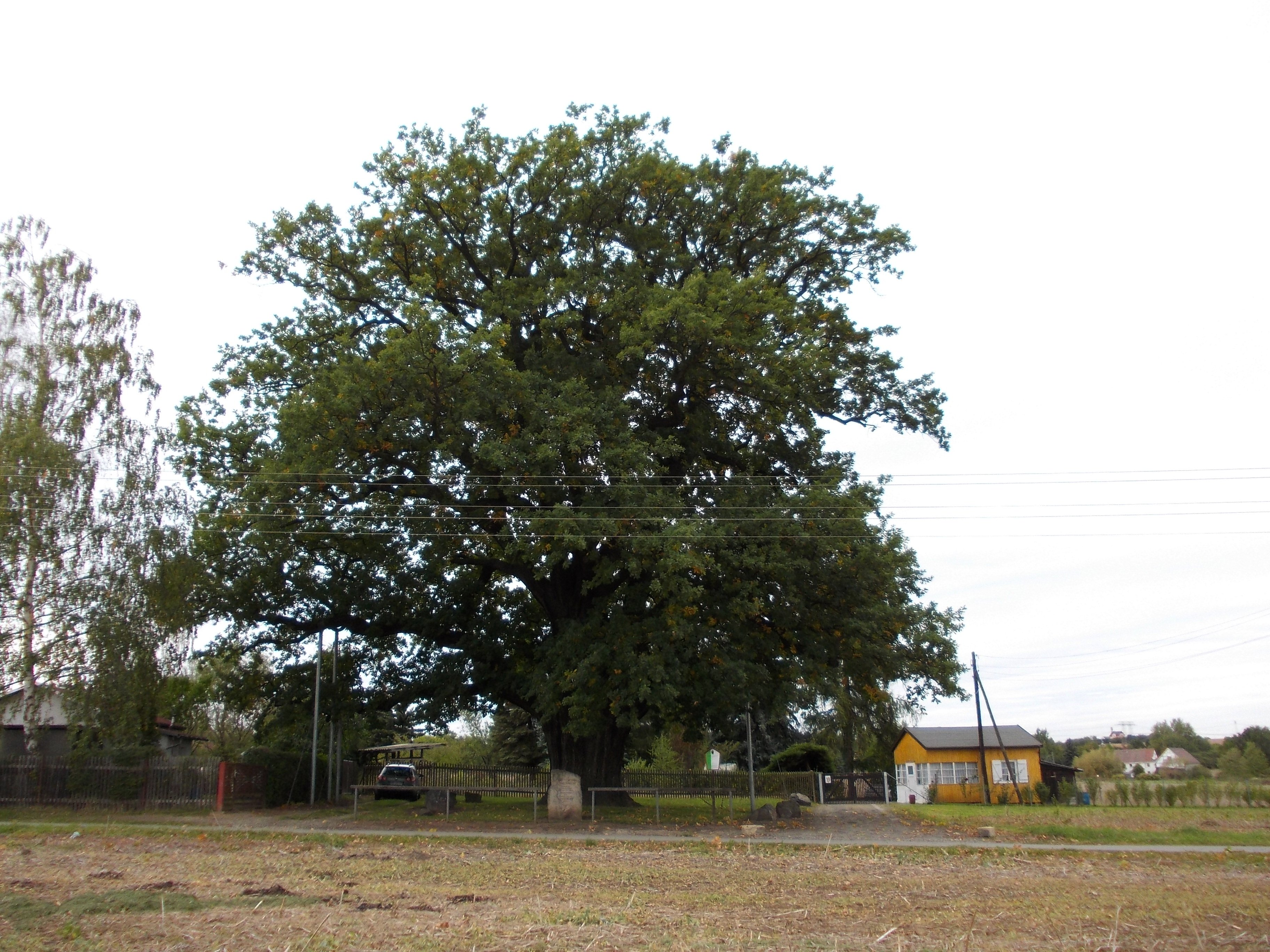 Swede's Oak near Weida (Greiz district, Thuringia), a 800-year old pedunculate oak